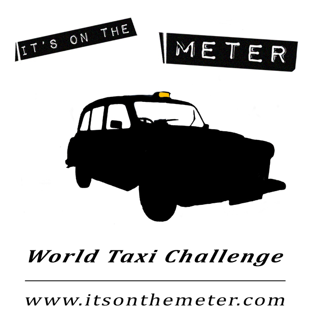 Logo for the It's on the Meter world record attempt expedition for the longest ever journey by taxi